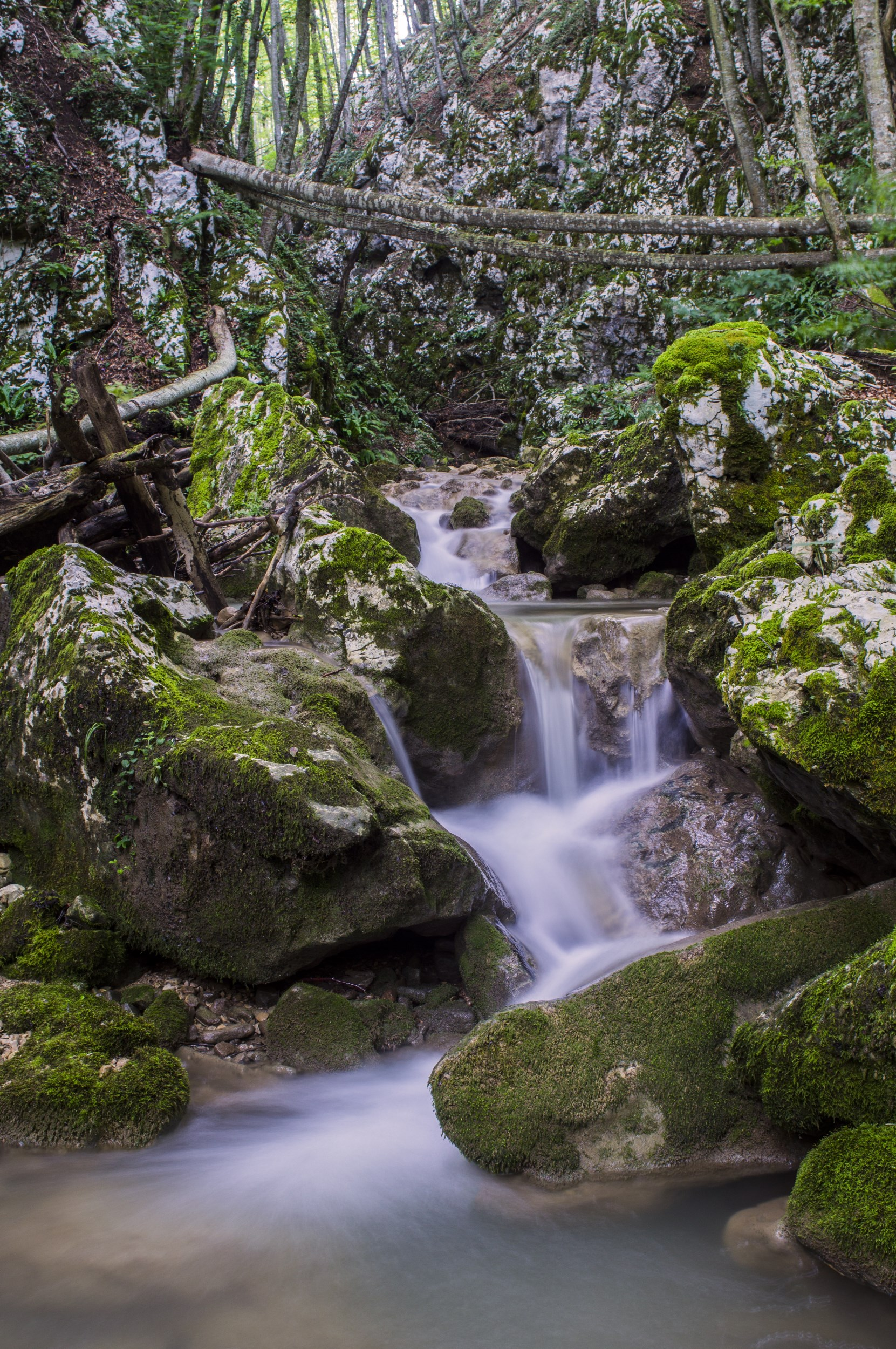 Zeleni Vir waterfall in Žumberak mountains